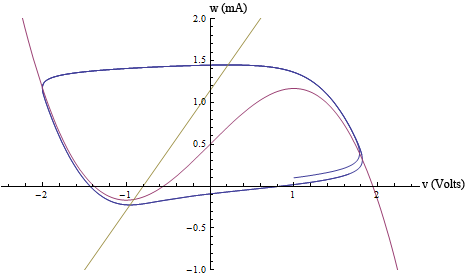 Fitzhugh-Nagumo model with I=.5, a=.7 b=.8 tau=12.5 in the phase plane.